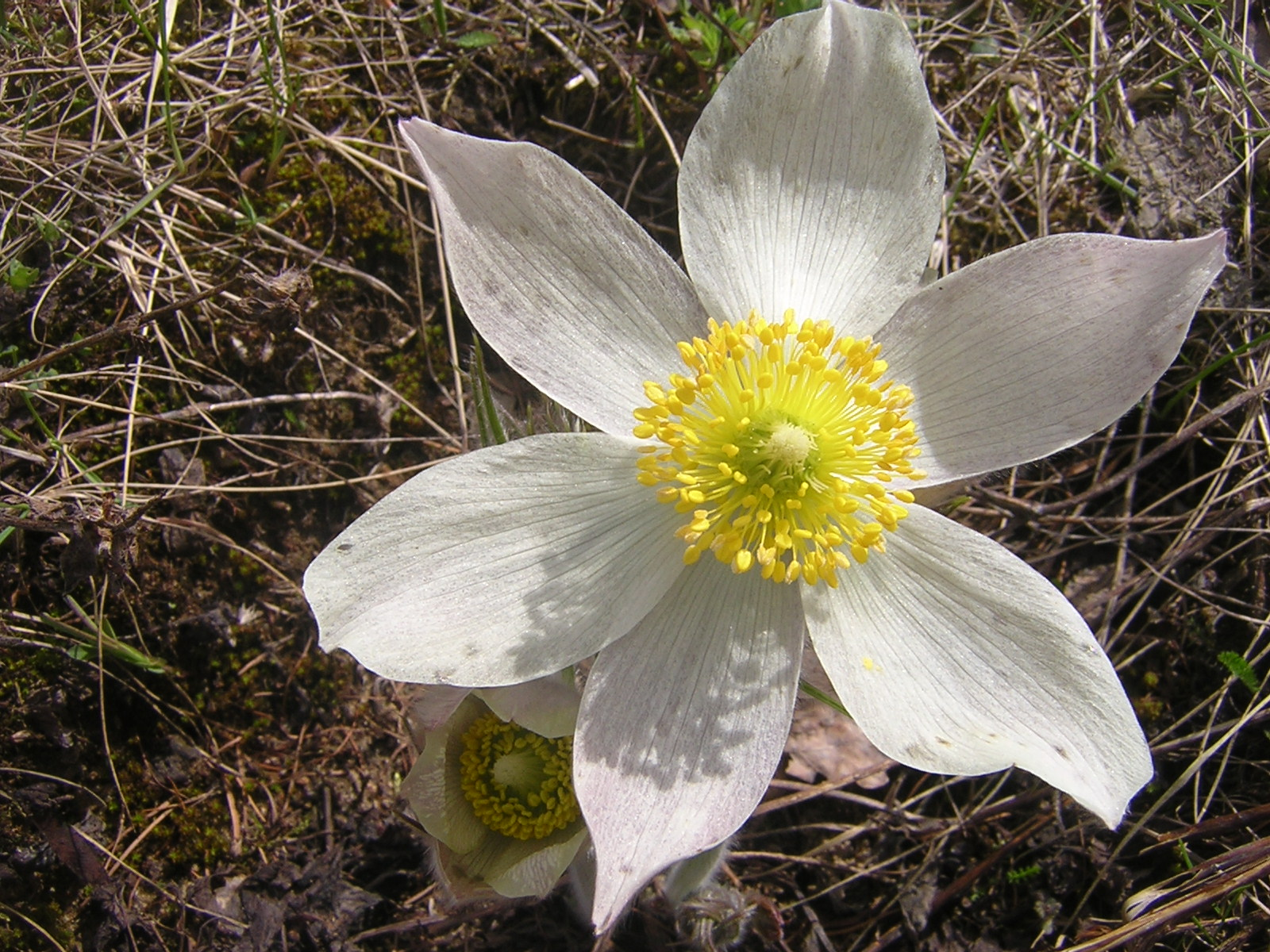 Pulsatilla patens, flower. Russia, Ukhta.